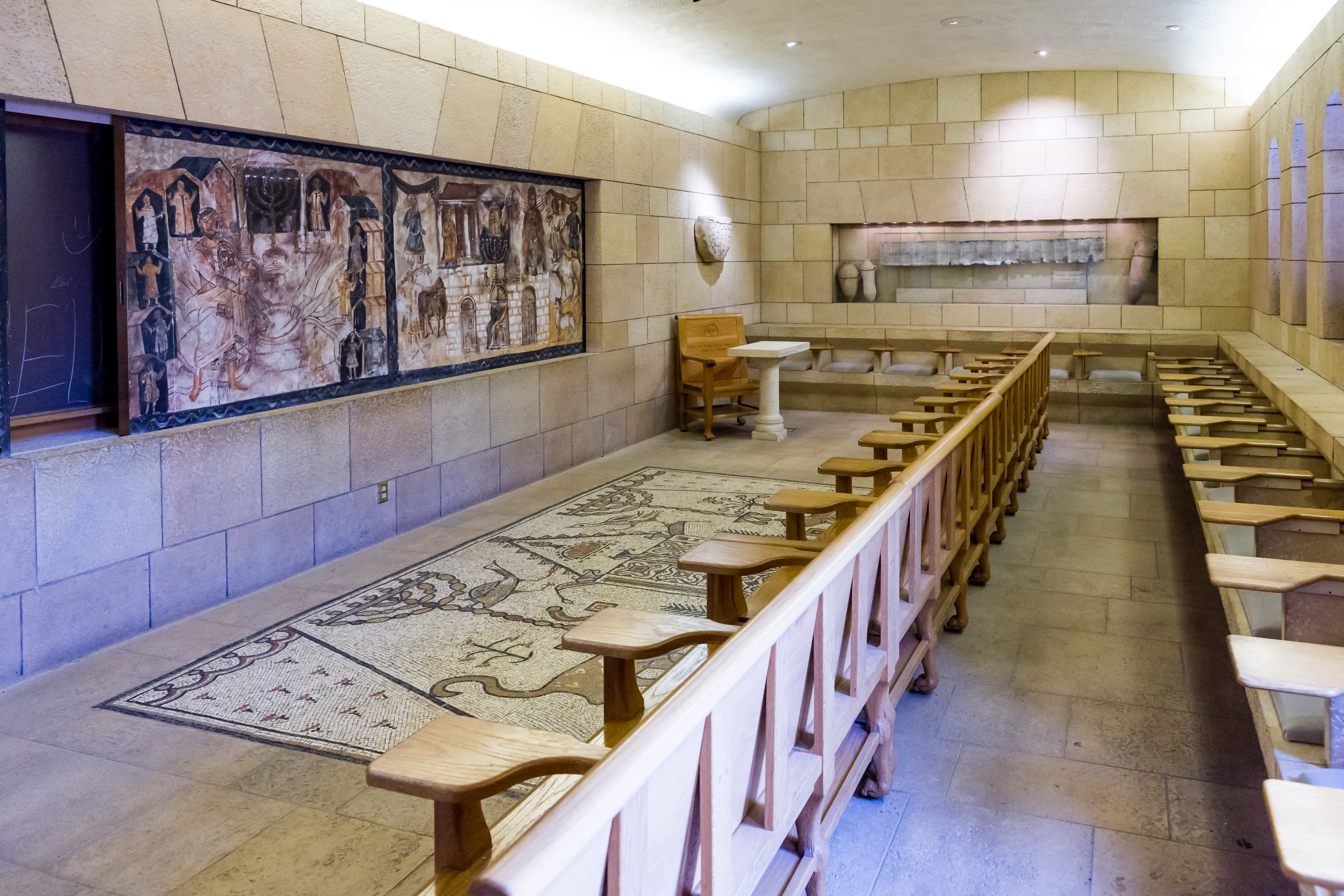 Israel Heritage Nationality Room in the Cathedral of Learning at the University of Pittsburgh